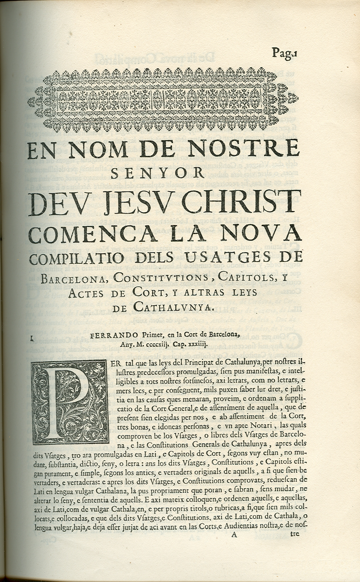 Usatges (Uses) of Catalonia, of the 11th century, one of the first modern legal texts. This is the compilation of 1413.